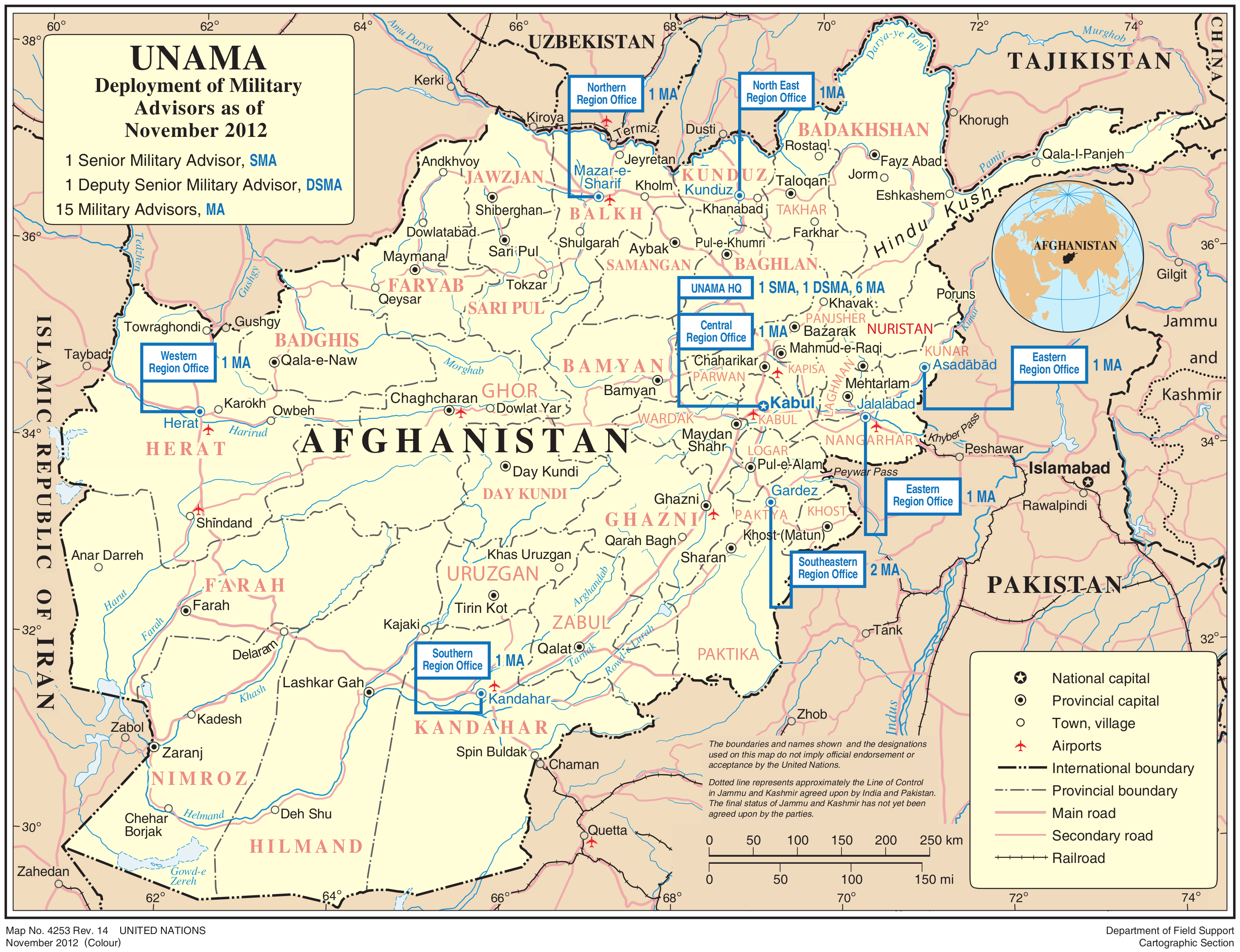 United Nations Assistance Mission in Afghanistan deployment map as of 2012.